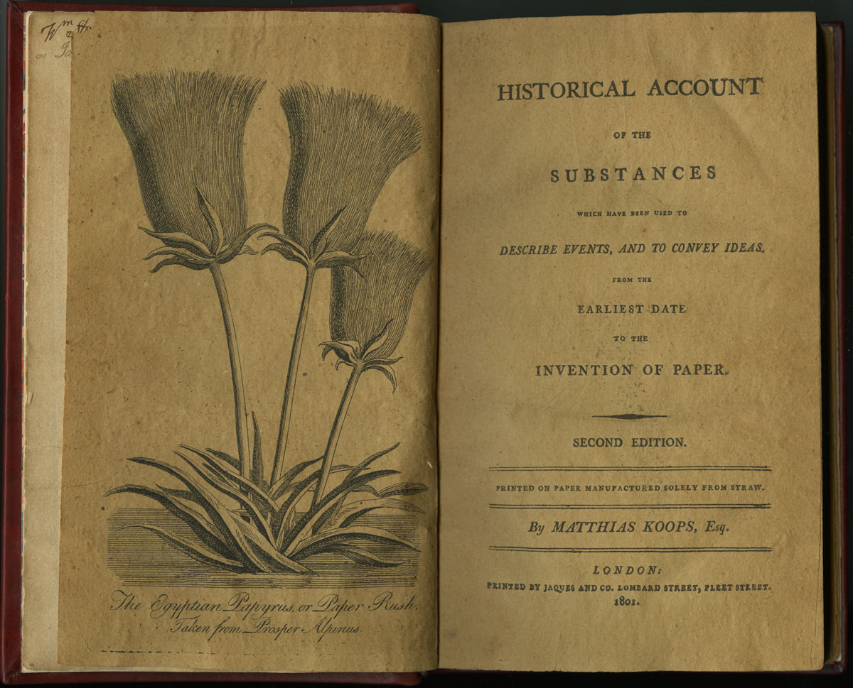 Title page of the Historical account of the substances which have been used to describe events, and to convey ideas, from the earliest date, to the invention of paper, by Matthias Koops, 1801, the first book printed on paper made from wood shavings. This image is from the 2nd edition, printed on straw, 1802.